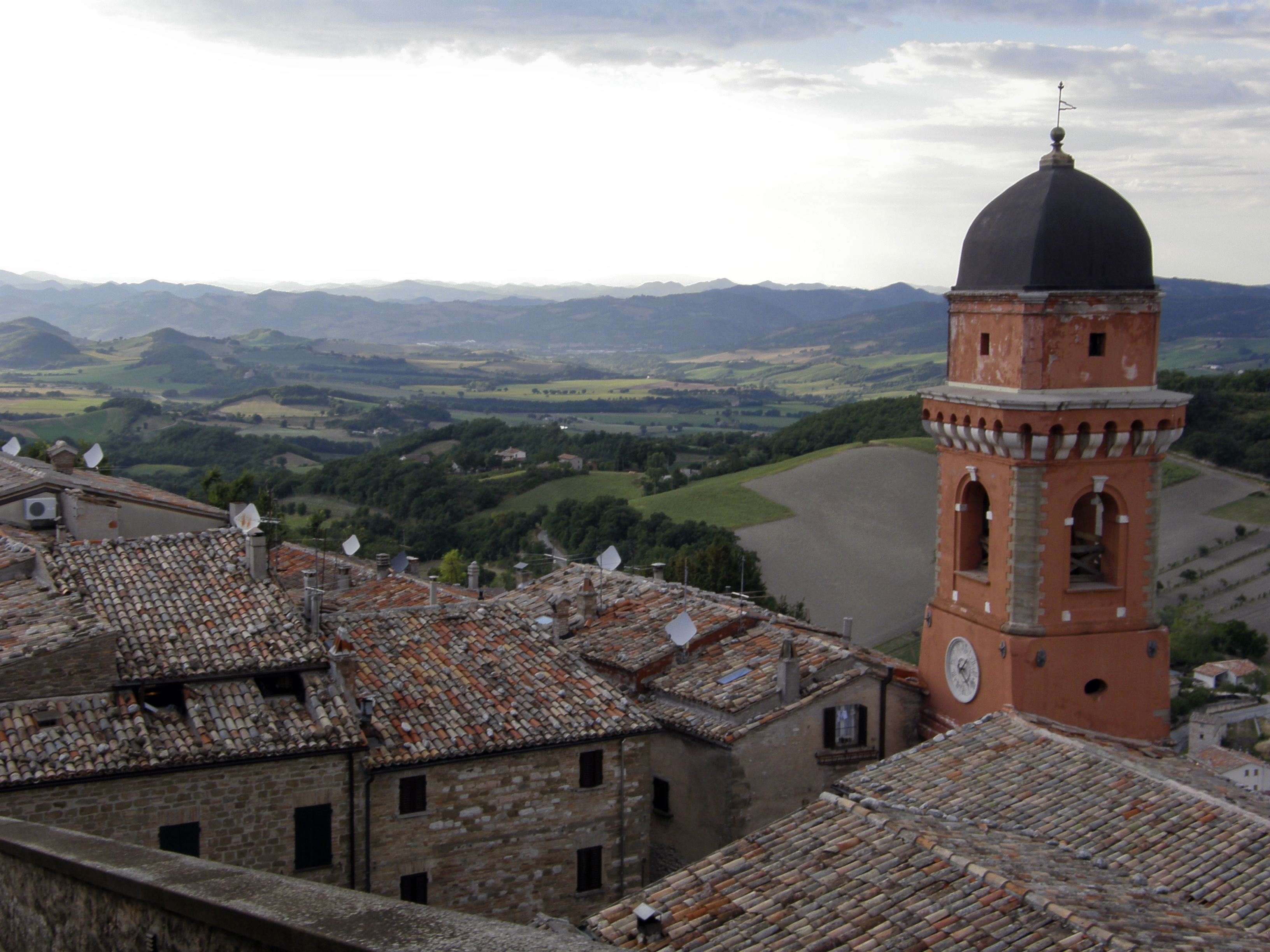 Castle of Frontone, Marche, Italy Sight from the castle's entrance